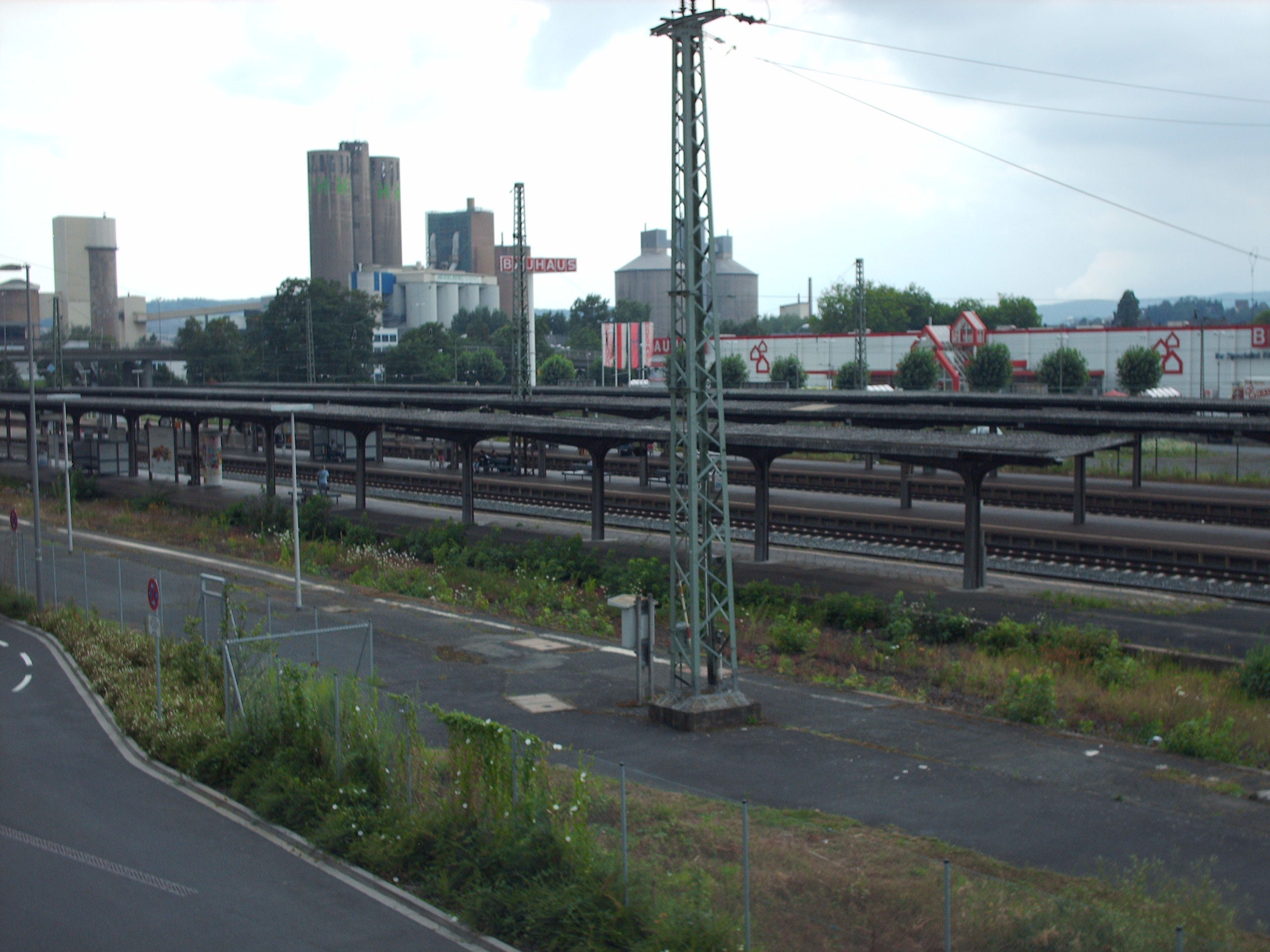 Platforms at Wetzlar station, Wetzlar, Germany check usage